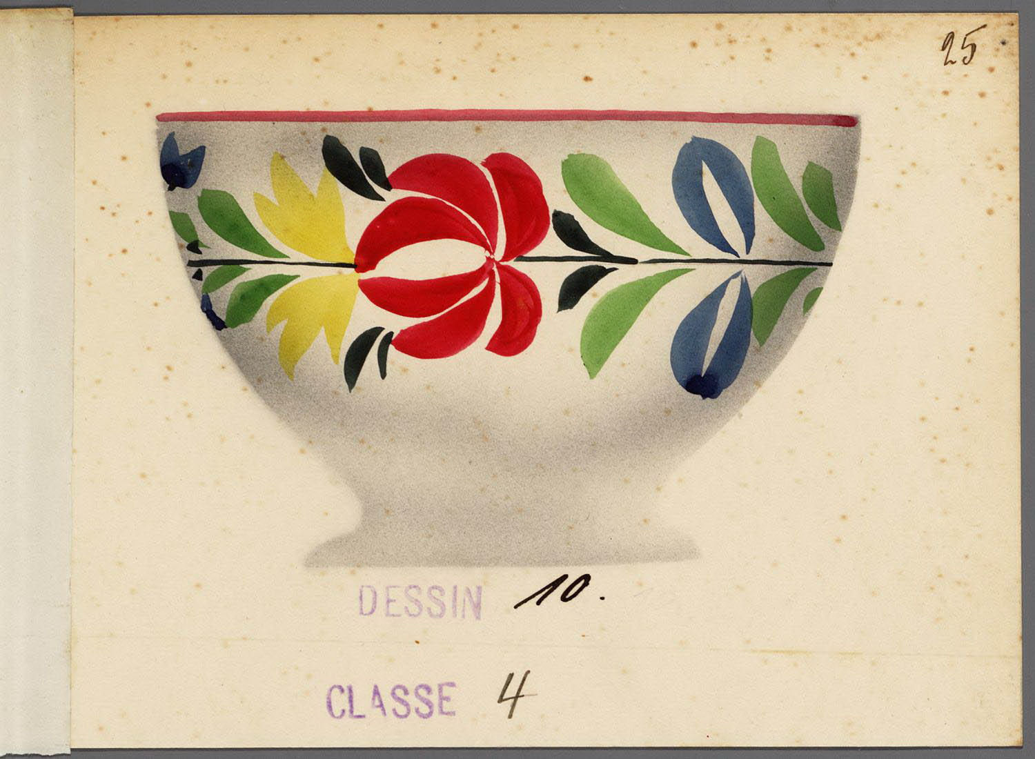 Design for bowl with so-called Boerenbont pattern, a popular design of Royal Sphinx potteries in Maastricht from 1840 until 1969.